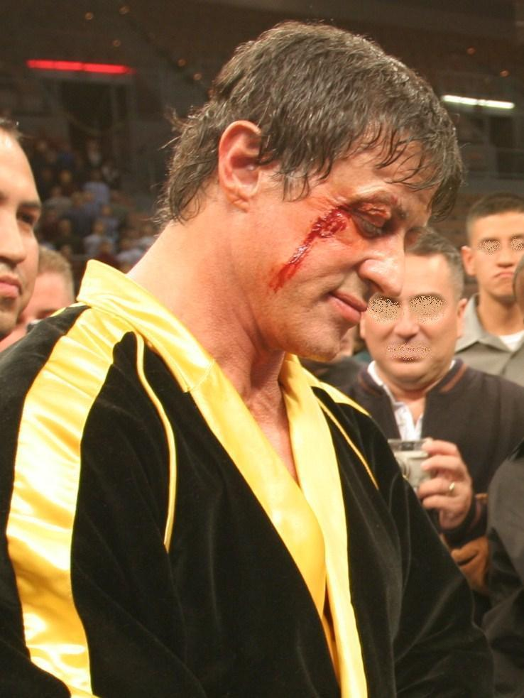 Actor Sylvester Stallone as Rocky VI.